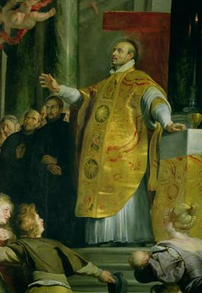 The Vision of St. Ignatius of Loyola (detail)